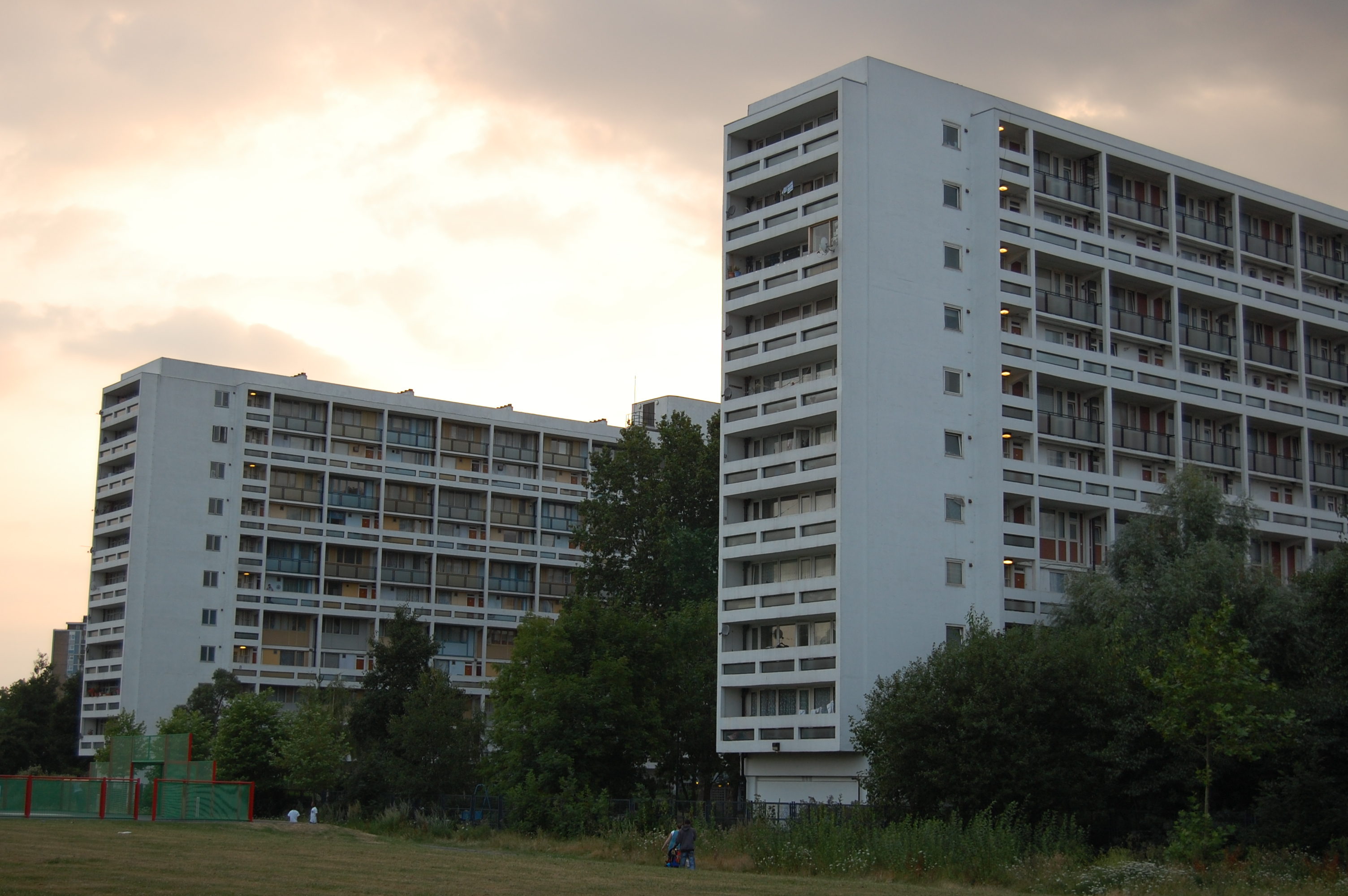 Two blocks in the Loughborough Estate near Brixton.